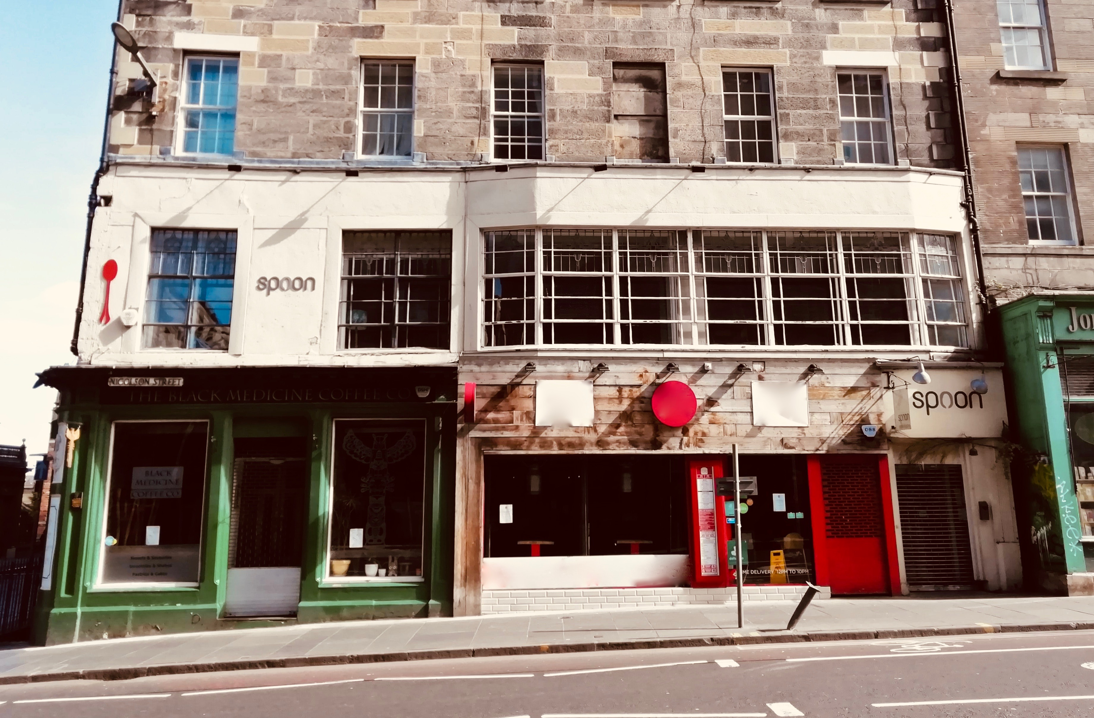 The former Nicholson's Cafe (now renamed Spoon) on the 1st floor is where J. K. Rowling sat at a table in the window and wrote the first few chapters of Harry Potter and the Philosopher's Stone. The cafe is situated at 6A Nicolson St, in Edinburgh.